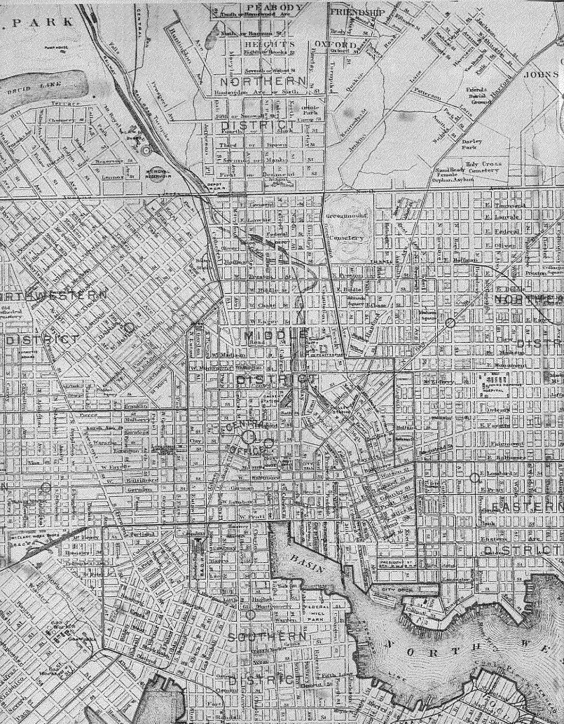 Detail from a Charity Organization Society map of Baltimore, ca. 1880 showing the area where the riot took place and indicating the probable police district boundaries.